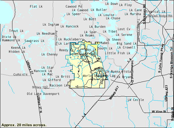 map of the city of Bay Lake, Florida showing city limits